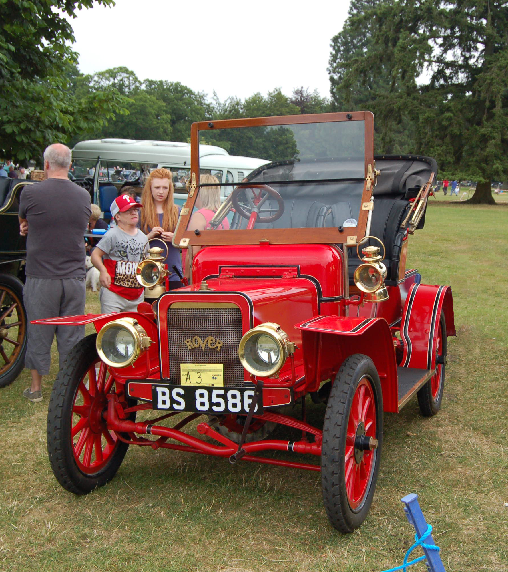 1906 Rover 1329cc (DVLA) Newby Hall Historic Car Rally 21 July 2013